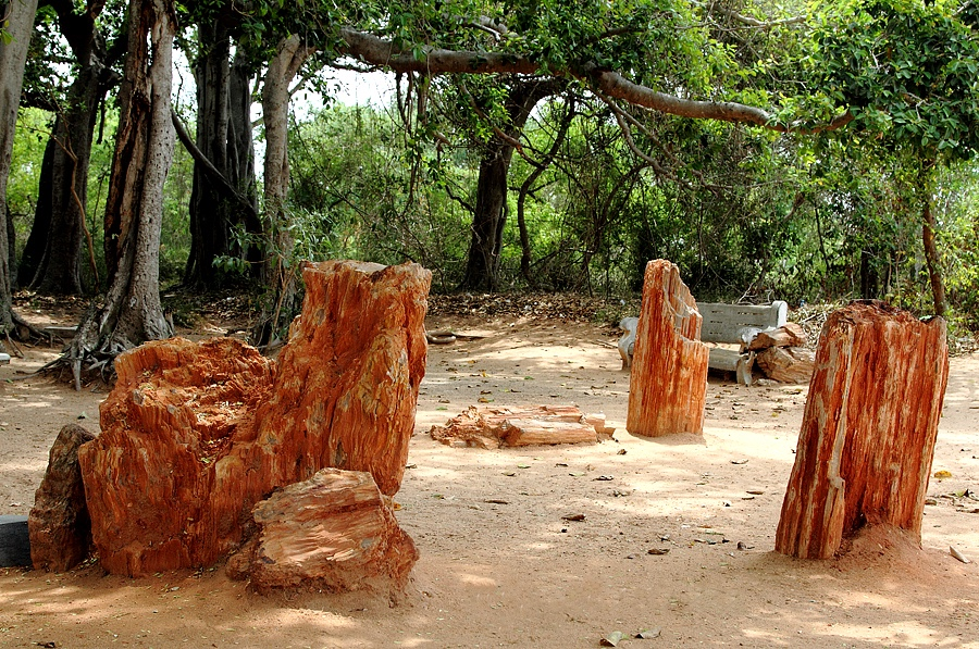 The fossil wood park is near Mailam, Villupuram District, Tamilnadu.